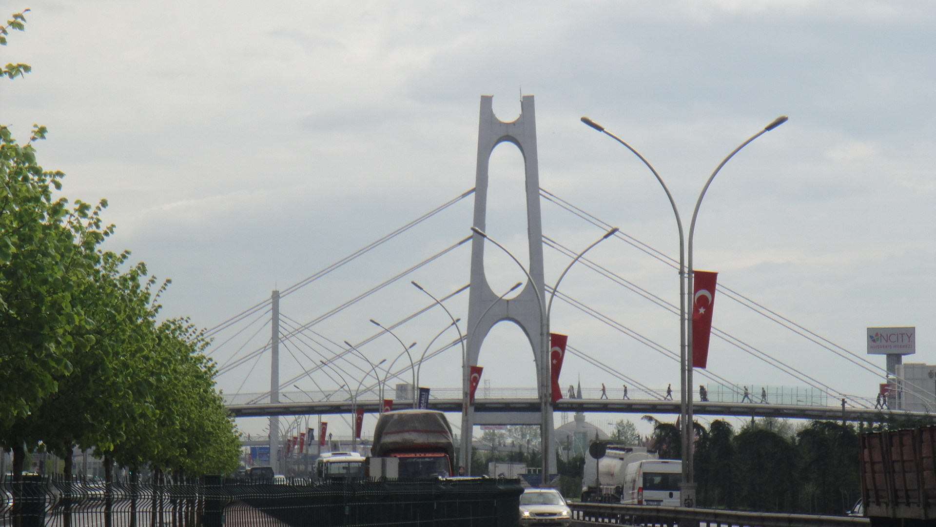 Overpass in Kocaeli, Turkey